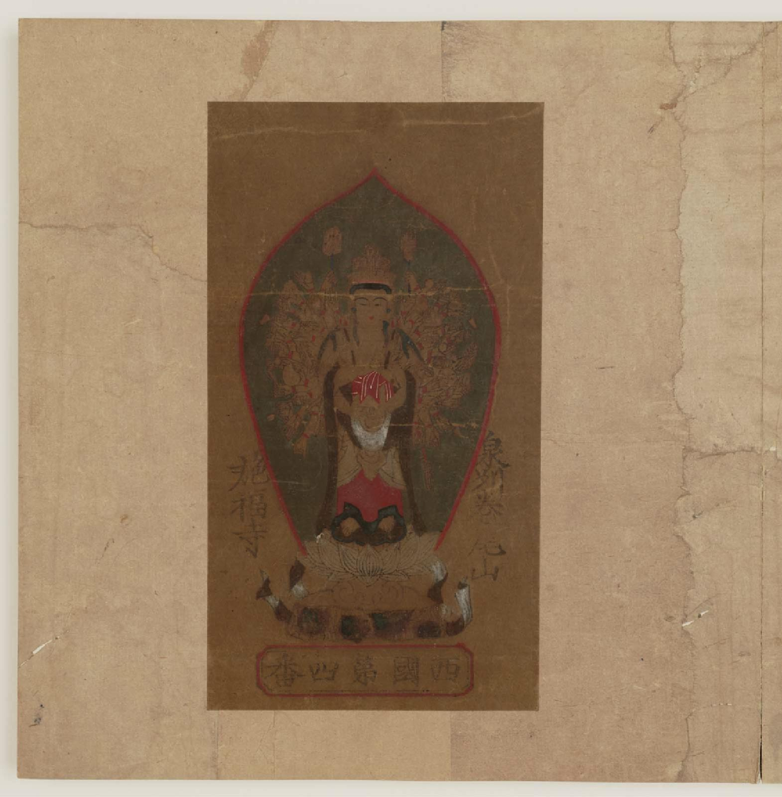 Woodblock print; ink on paper, with hand-applied color; Dimensions Album page: 26 x 25.3 cm